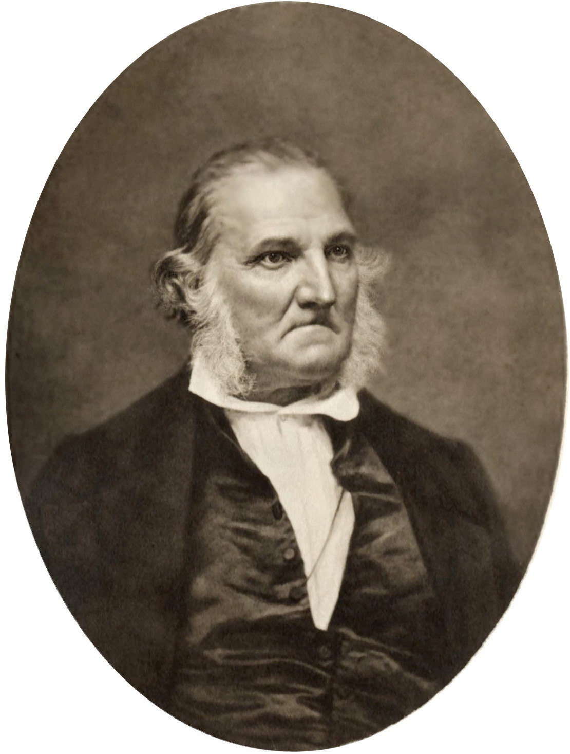 John James Audubon (Jean-Jacques Audubon) (April 26, 1785 – January 27, 1851)